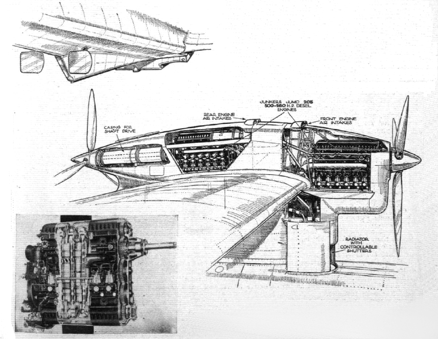 Drawing of the engine installation of a Dornier Do 18 (center), part of the fuselage (upper left) and the Jumo 205 diesel engine (lower left).